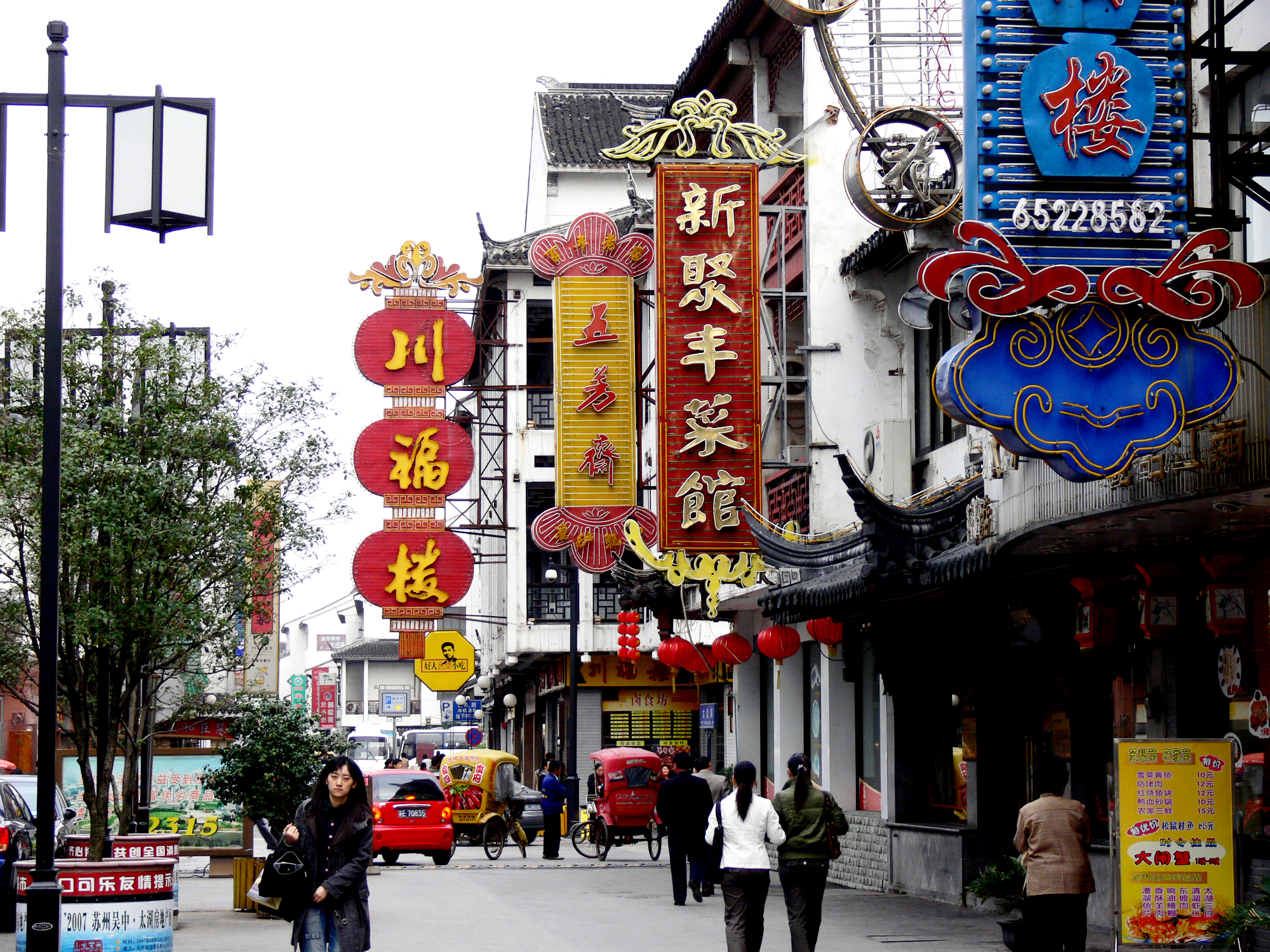 Eunuch Alley in Suzhou, famous for restaurants